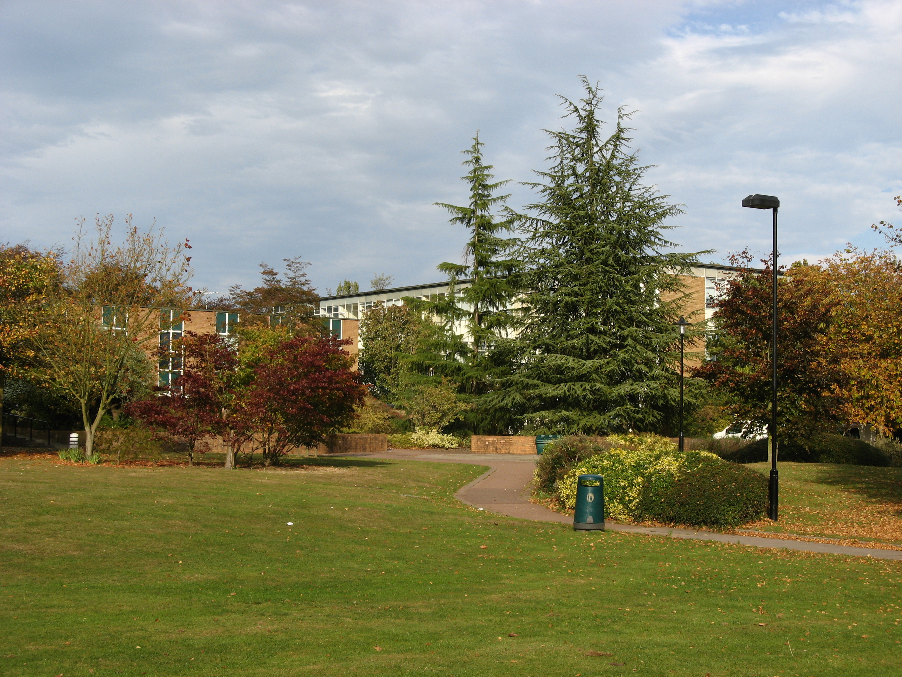 Part of the central grassy area of the Westwood campus, University of Warwick.